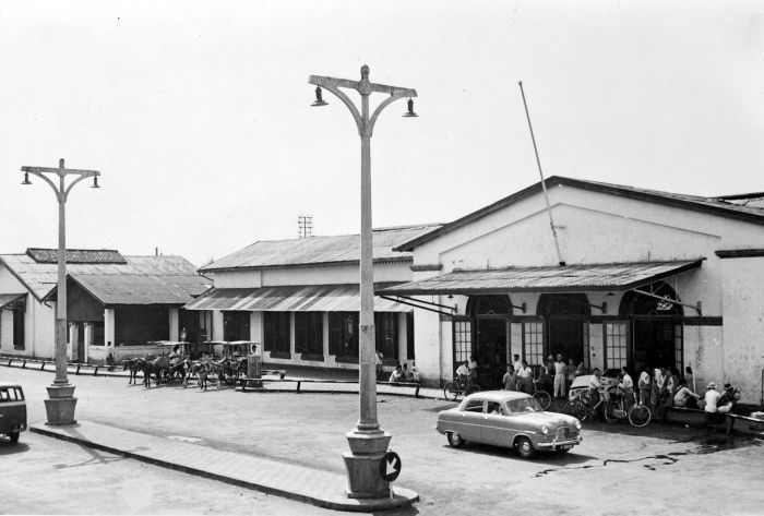 The railwaystation in Sukabumi, Java